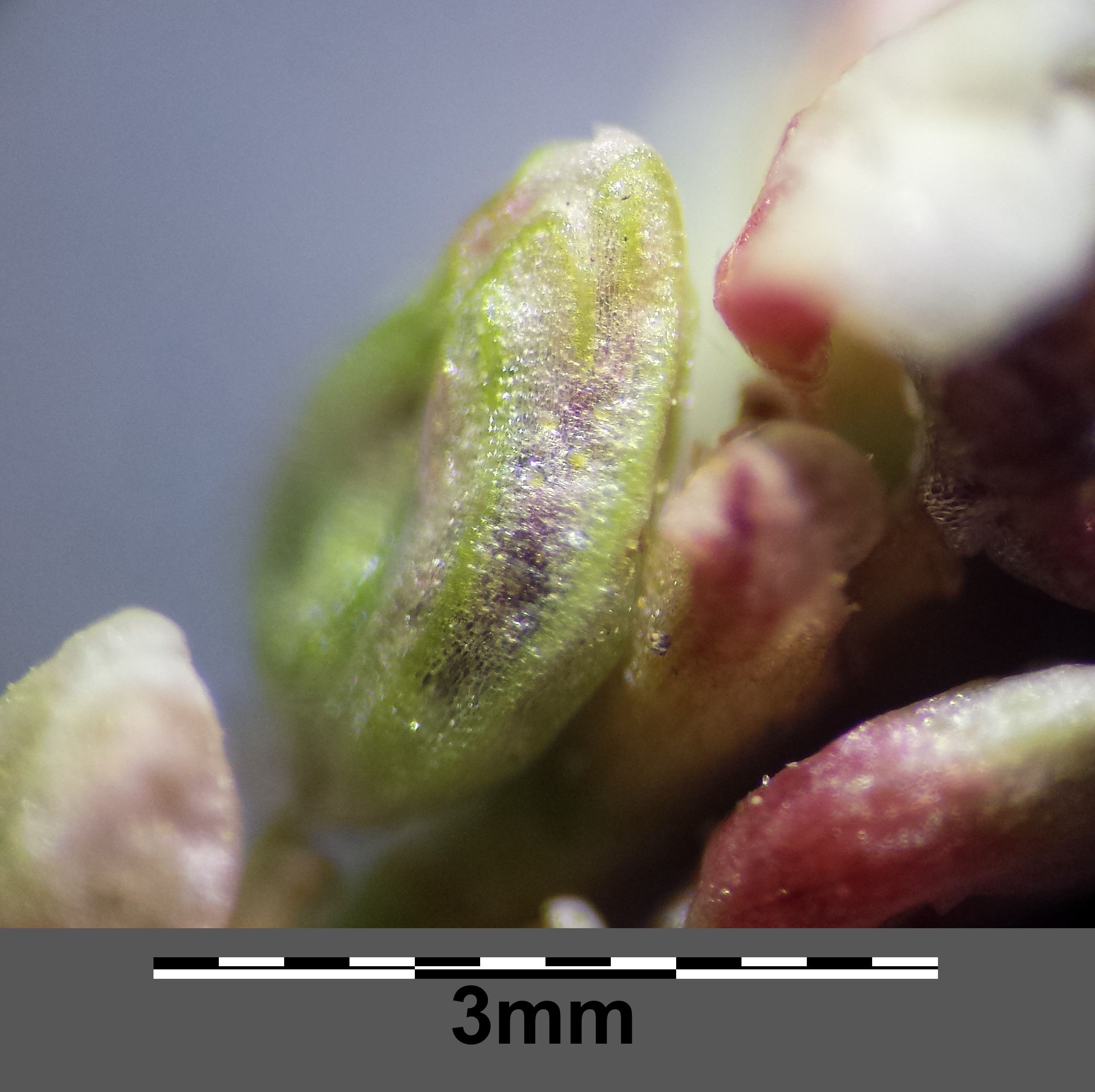 Perigone with anchor-shaped veins Taxonym: Persicaria lapathifolia subsp. brittingeri ss Fischer et al. EfÖLS 2008 ISBN 978-3-85474-187-9 Location: Schichtgründe, Leopoldau, Vienna-Floridsdorf - ca. 160 m a.s.l. Habitat: building zone